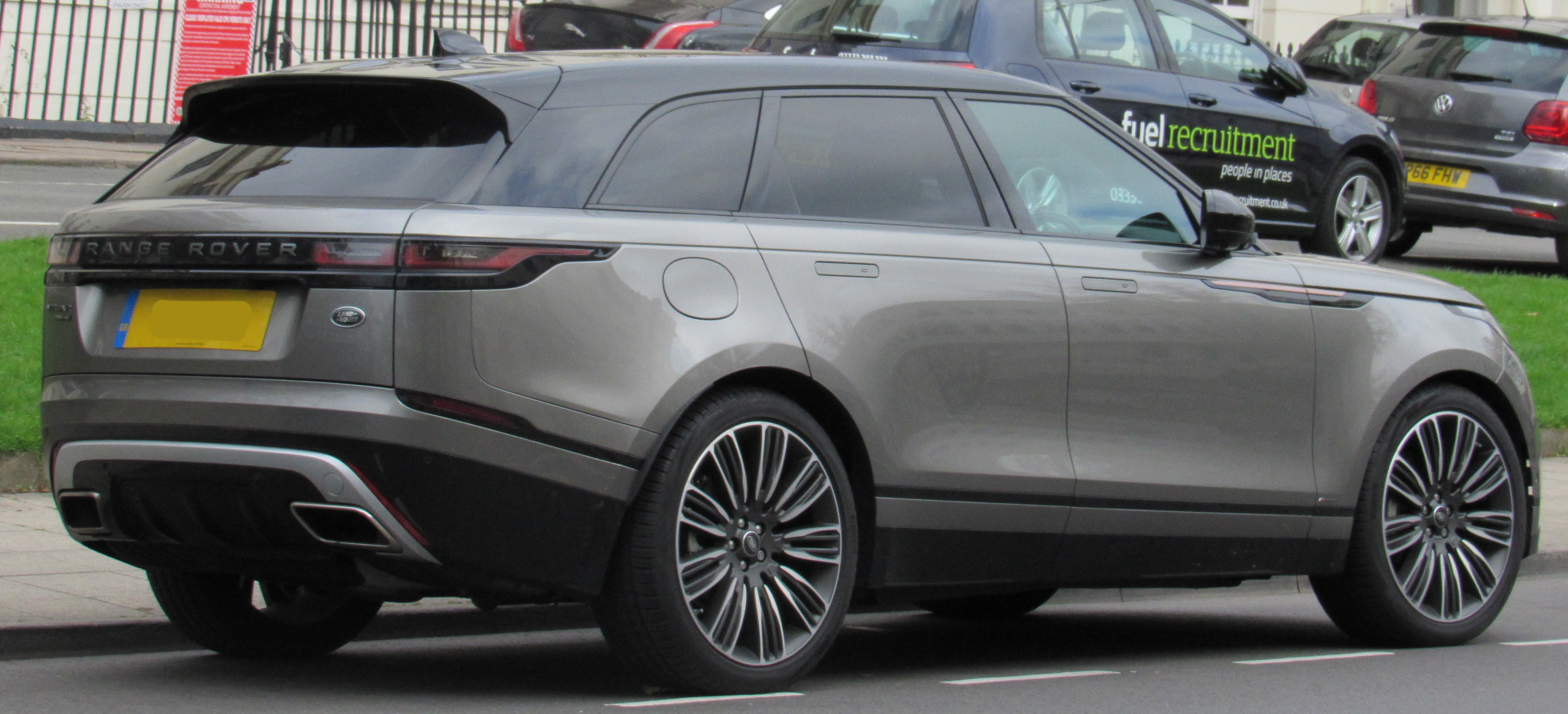 2017 Land Rover Range Rover Velar First Edition D3 3.0 Rear Taken in Leamington Spa